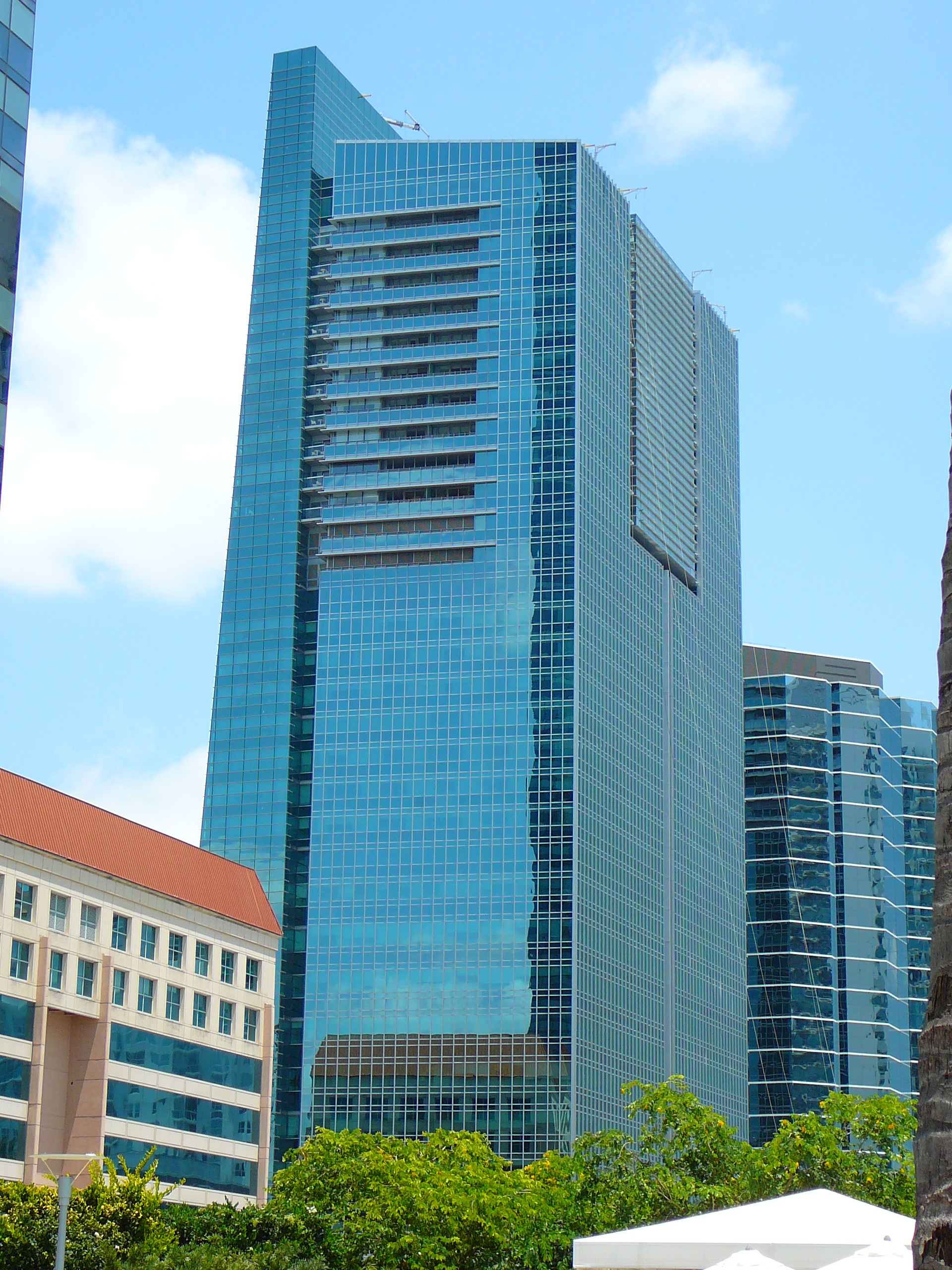 Digital photo taken by Marc Averette. The Espirito Santo Plaza tower in downtown Miami, back view from the pool deck of Four Seasons Hotel Miami 5/14/2008